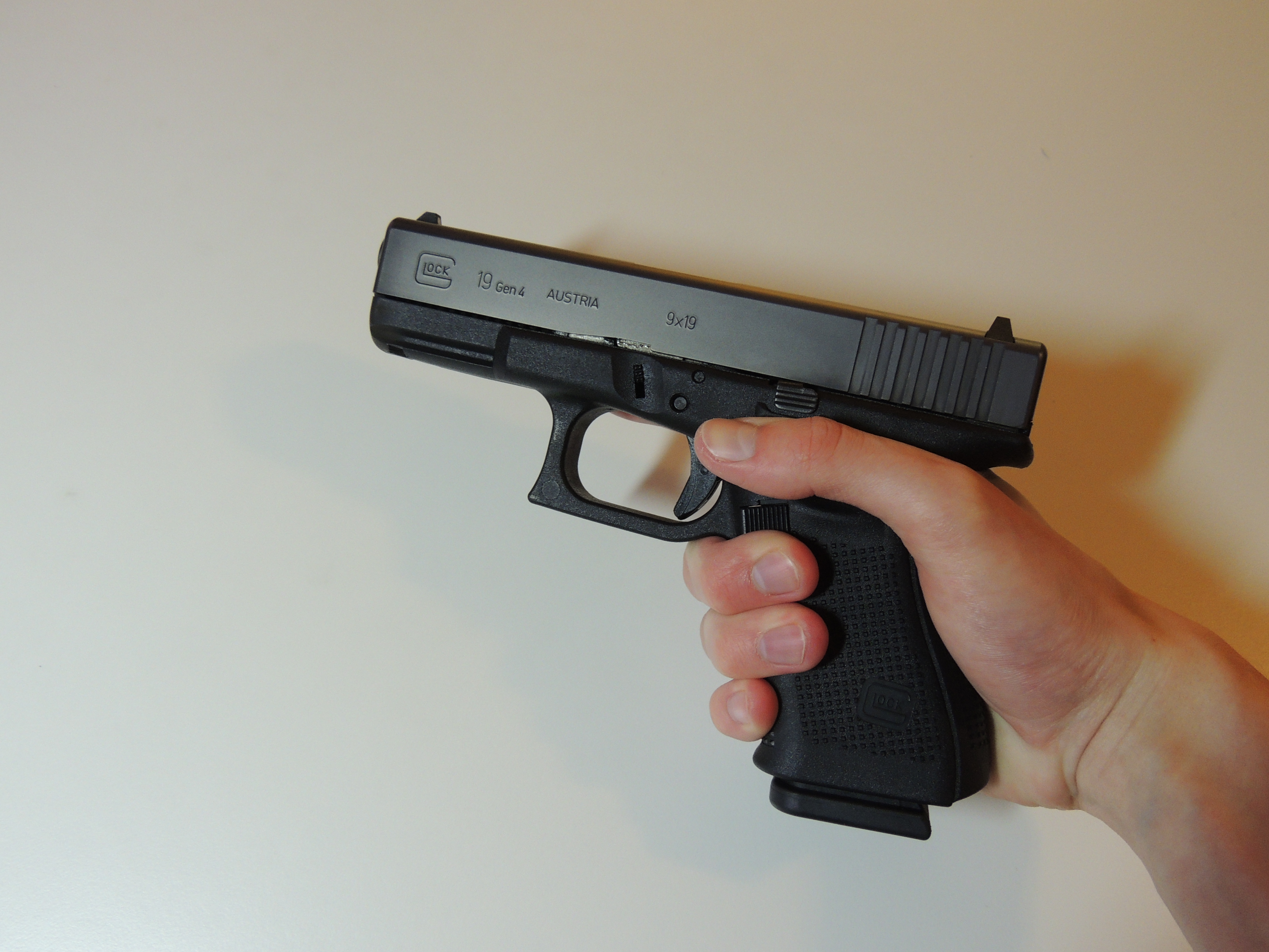 Glock 19 Gen 4 in hand.